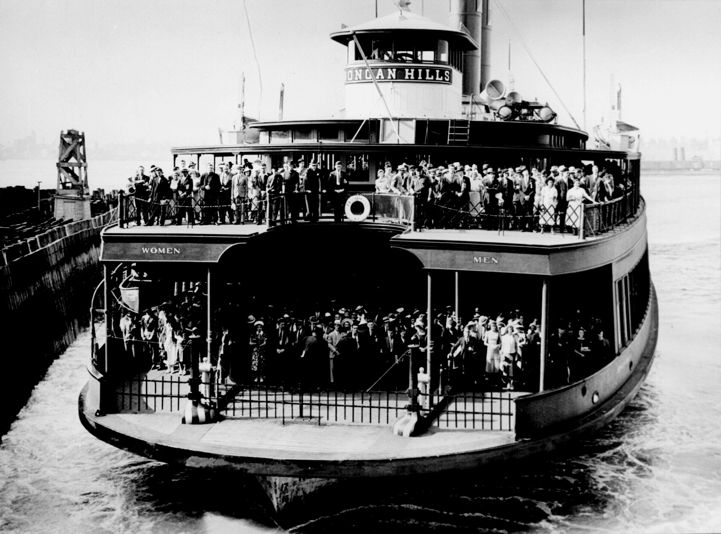 The ferryboat Dongan Hills, filled with commuters, about to dock at a New York City pier